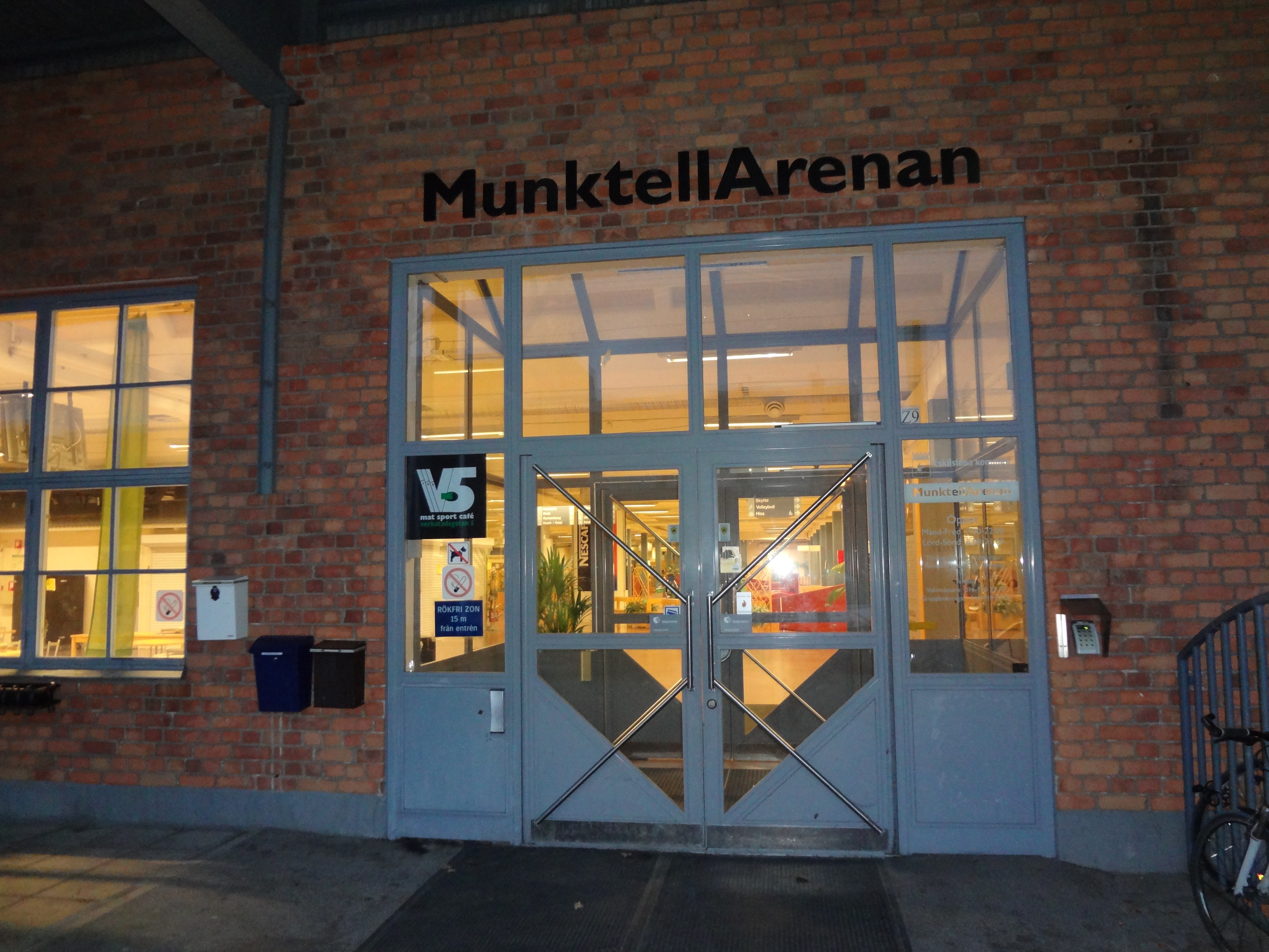 MunktellArenan Eskilstuna, entrance.